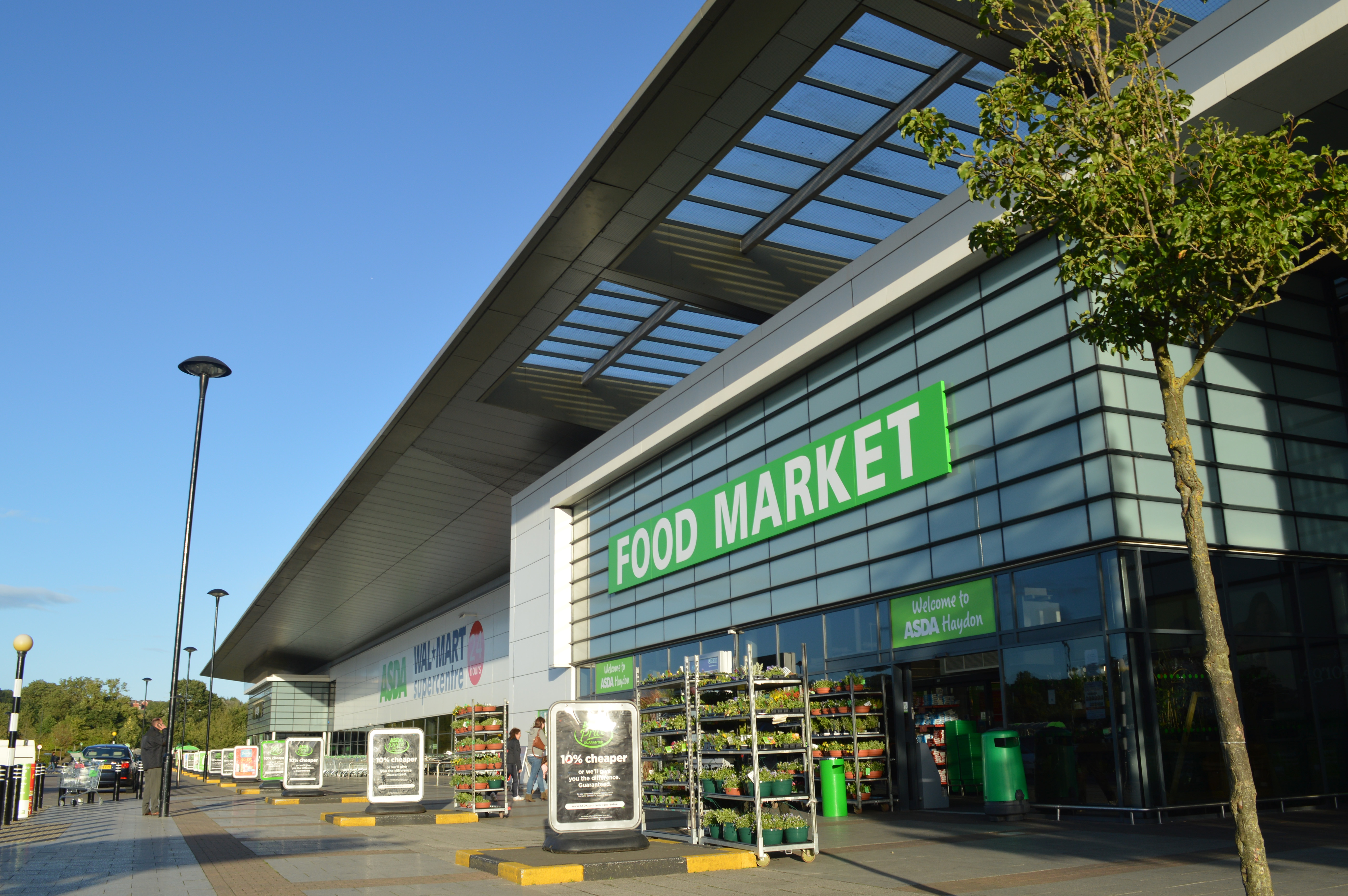 Asda Swindon Haydon Supercentre at The Orbital Shopping Centre, North Swindon District Centre, Thamesdown, Swindon. Branding on frontage in 2013 is ASDA WAL*MART supercentre.